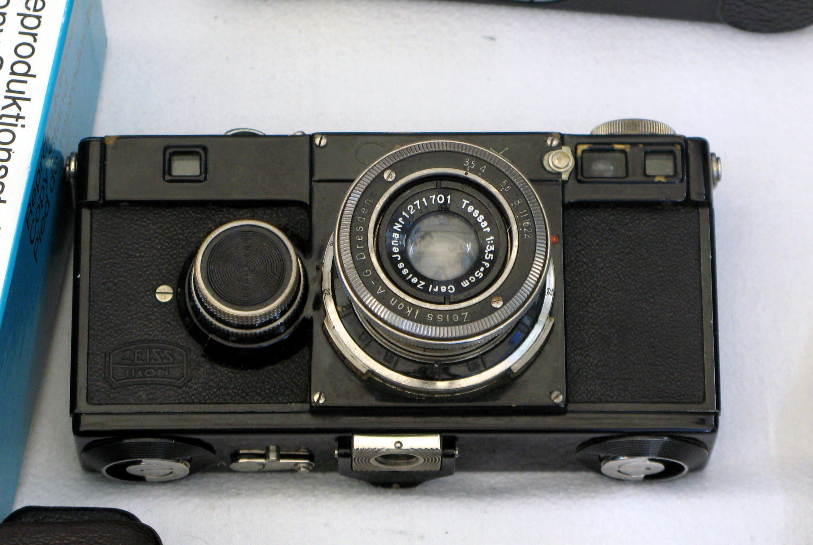 Contax I